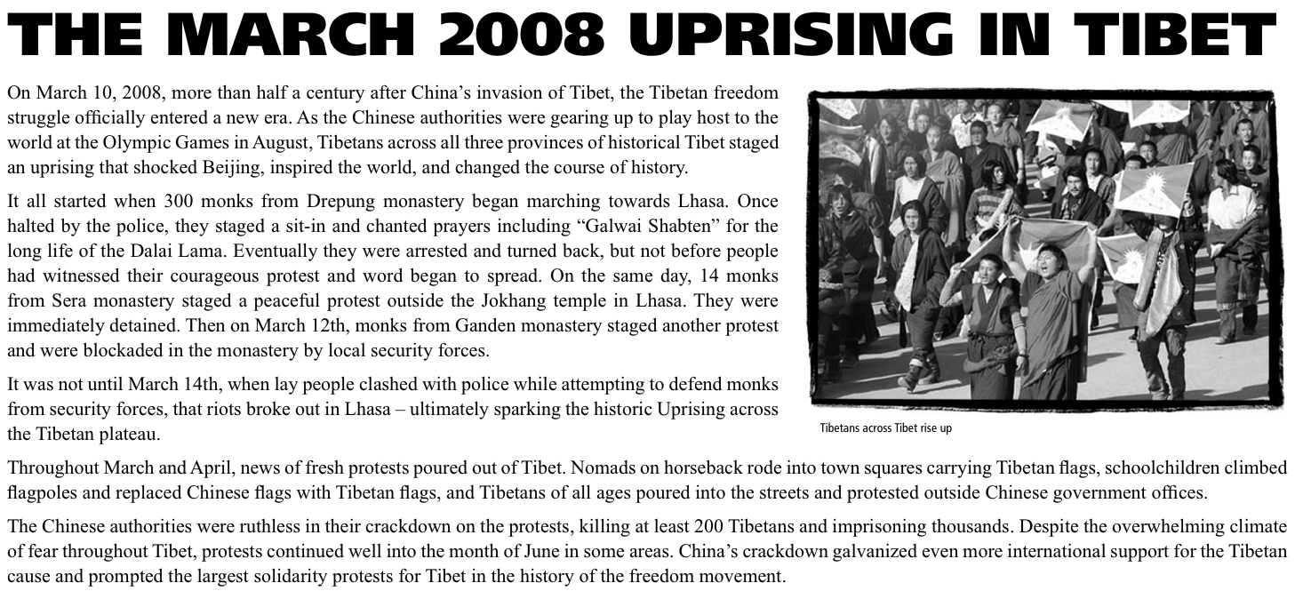 SFT's 2008 Olympics Commemorative Newsletter